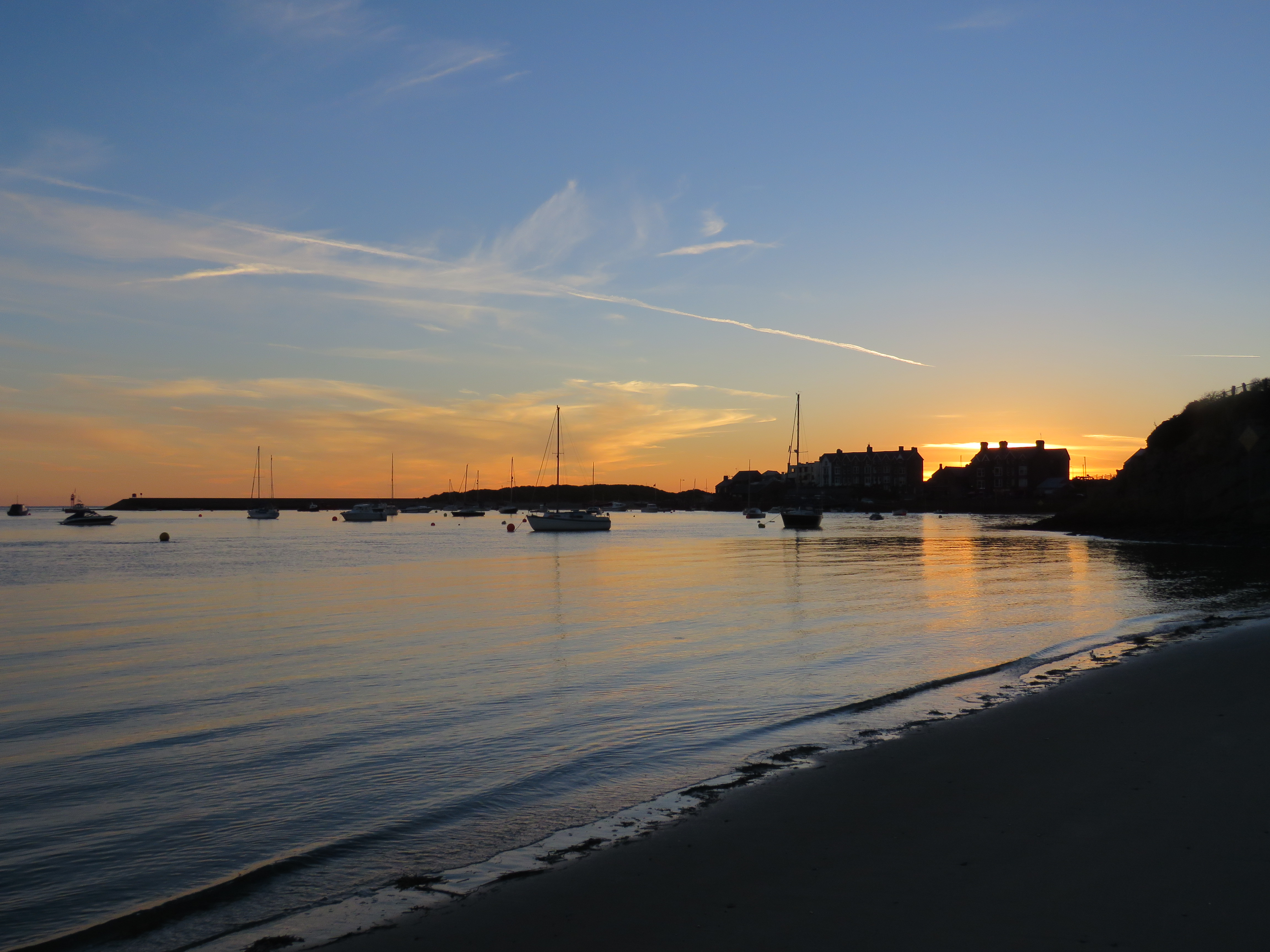 sunset on River Mawddach at Barmouth harbour